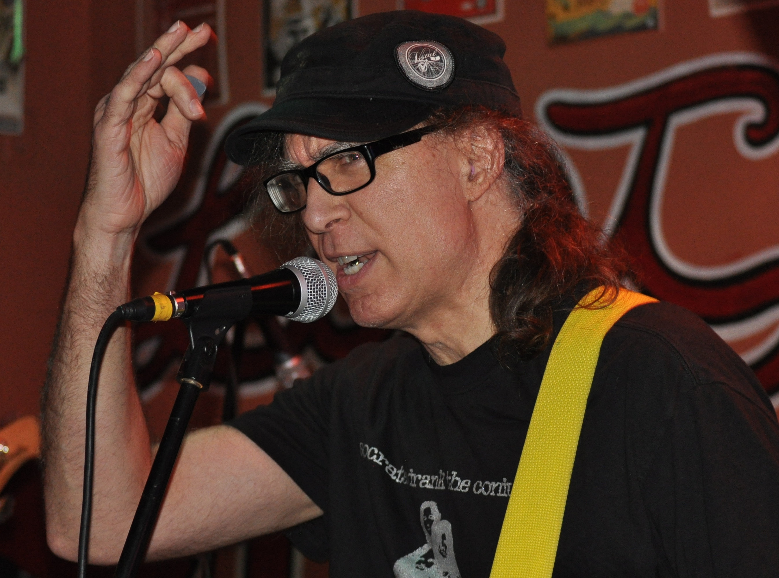 Jack Endino performing with Endino's Earthworm at the Georgetown, Seattle, Washington bar Slim's Last Chance, March 15, 2014. This is a flash photo with red-eye correction, and it is cropped.